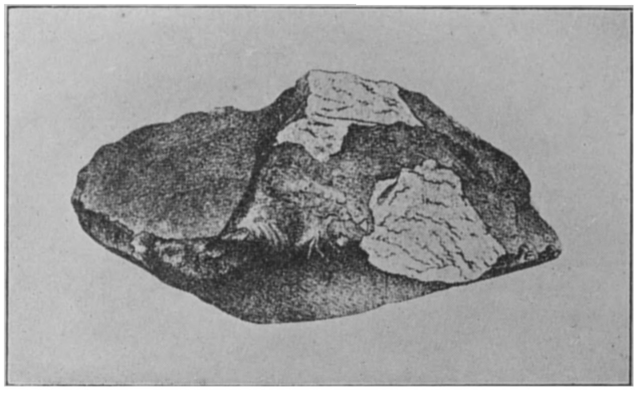 The Gross Divina meteorite, which fell in 1837 in what is now Slovakia.